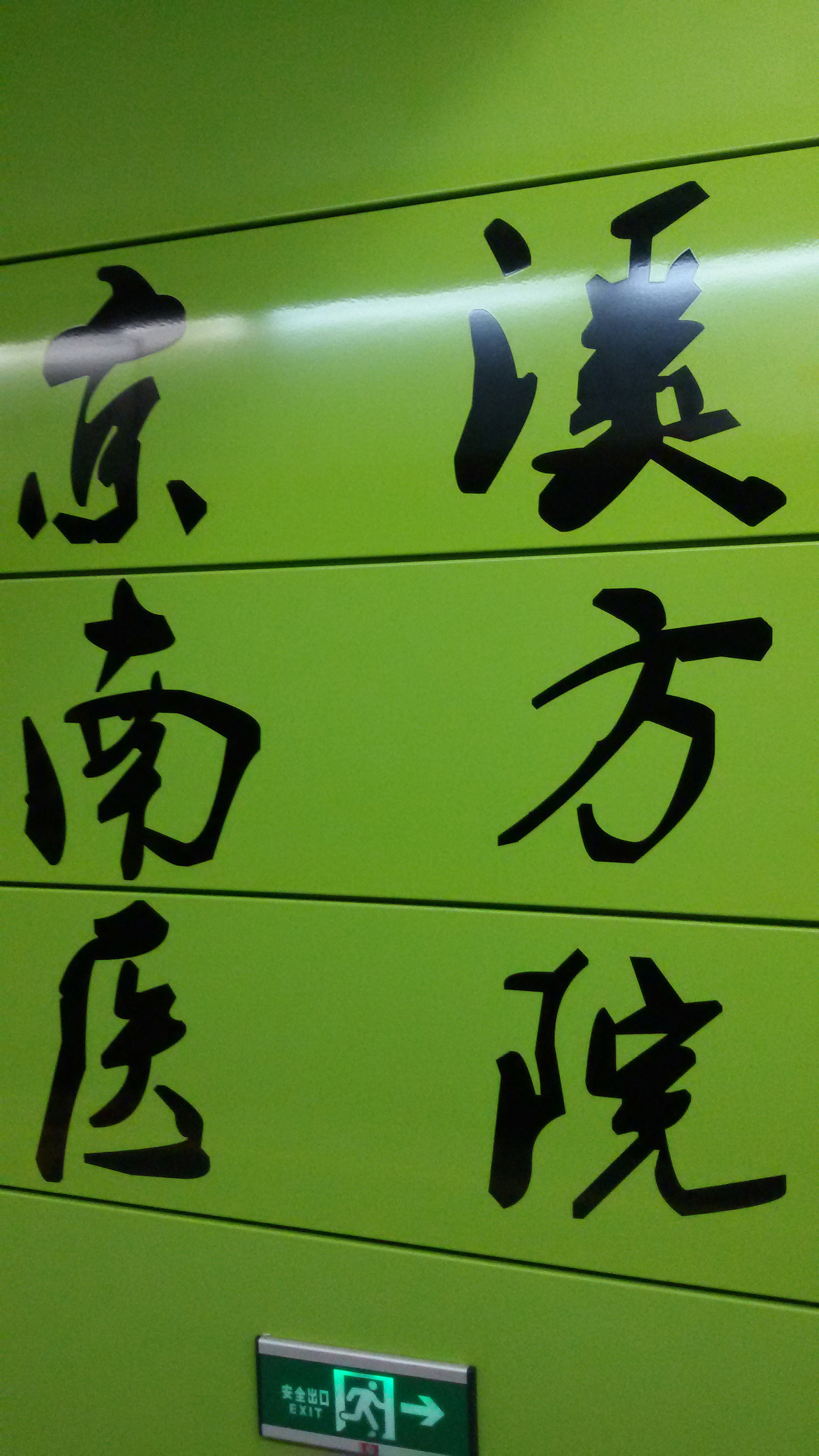 BIG WORD for Jingxi Nanfang Hospital Station in Guangzhou Metro 粵語: 廣州地鐵，京溪南方醫院站入面嘅大字。